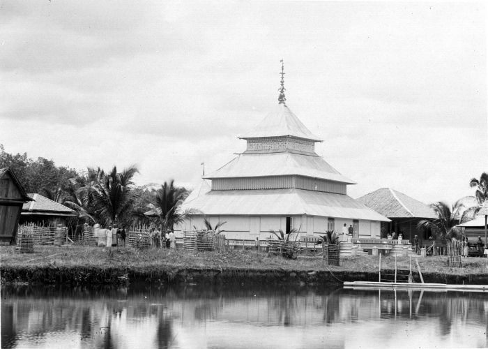 Mosque